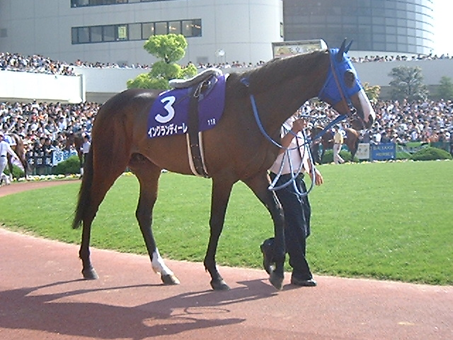 Ingrandire